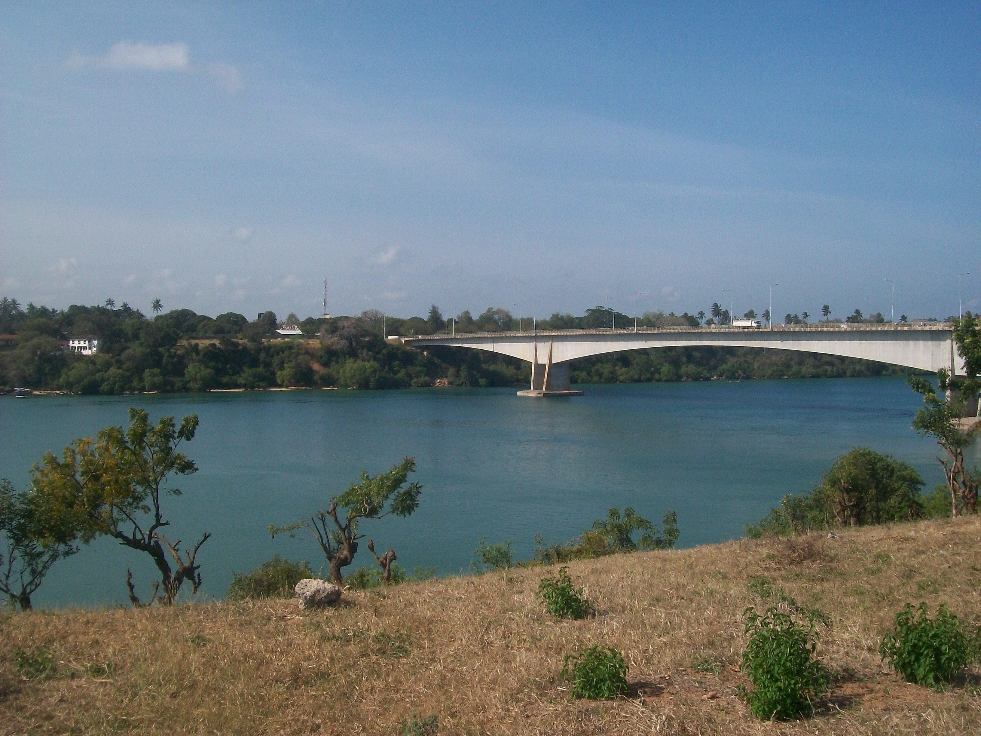 Kilifi bridge view from mnarani